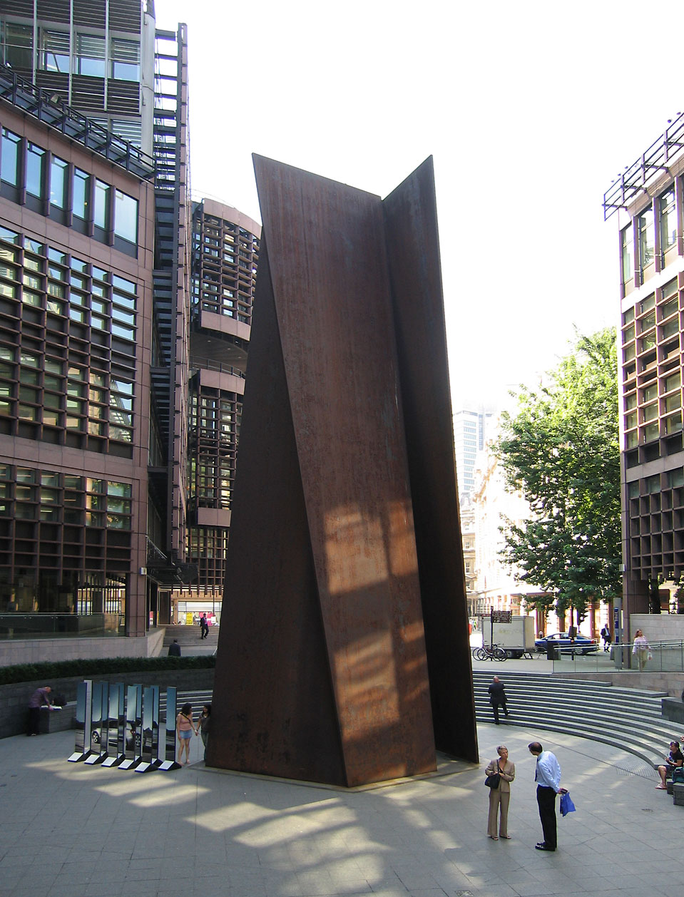 Fulcrum (1987) by Richard Serra, is a site specific sculpture commissioned for the west entrance to Liverpool Street station in the Broadgate complex. The sculpture is 55 ft (16.8 m) high, and constructed from five plates of Cor-ten steel which intentionally have rusted to add patina to the surfaces. Although each plate weighs many tons, the sculpture is free-standing with the plates leaning against each other at the top. (Keywords: Richard Serra, modern sculpture, cor-ten steel) Note This image of the structure falls under the Freedom of panorama for the United Kingdom